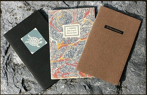 Books by the Hammer Creek Press.